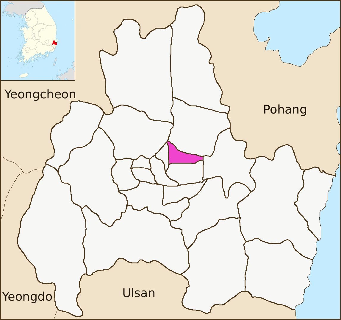 Map of Yonggang-dong, an administrative division of Gyeongju, South Korea. Created by User:Visviva, redrawn by Kokiri